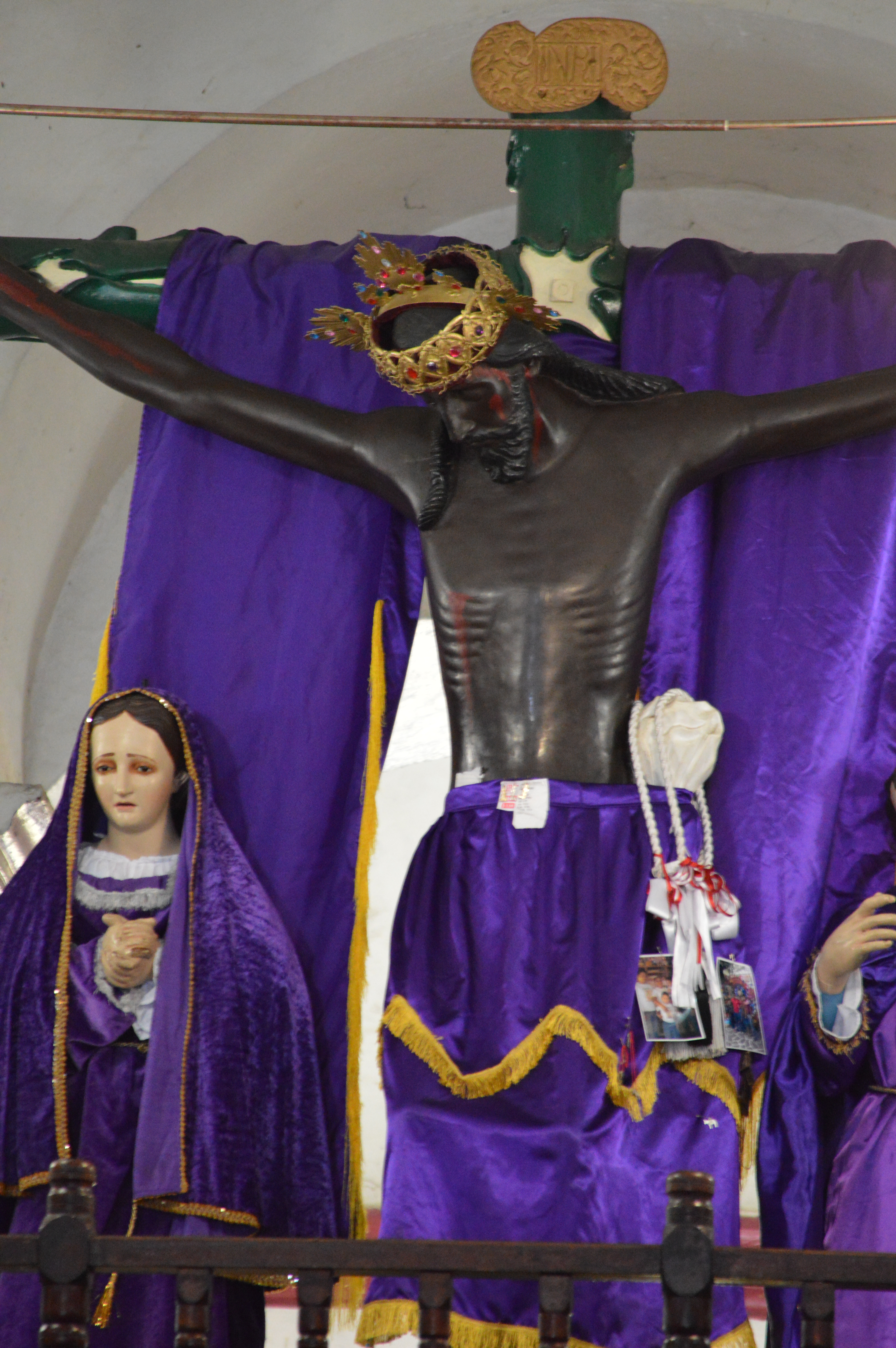 Black Christ of Otatitlán in Otatitlan, Veracruz, Mexico